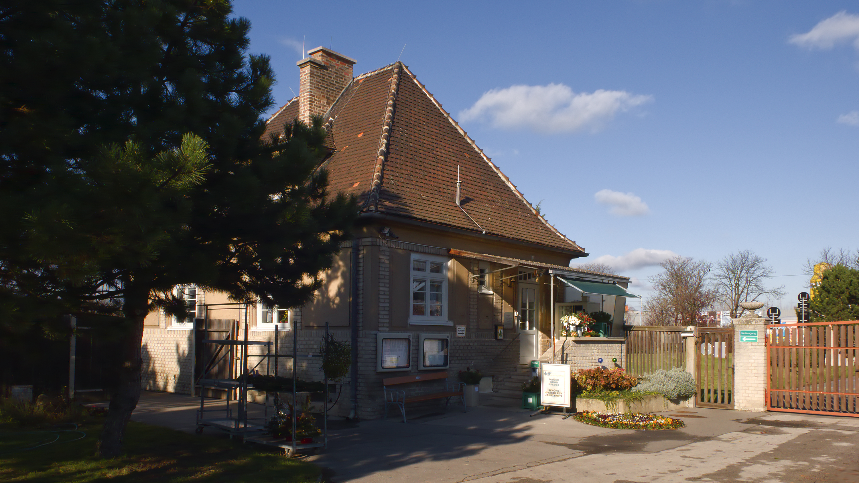 Vienna Liesing: Friedhof Liesing